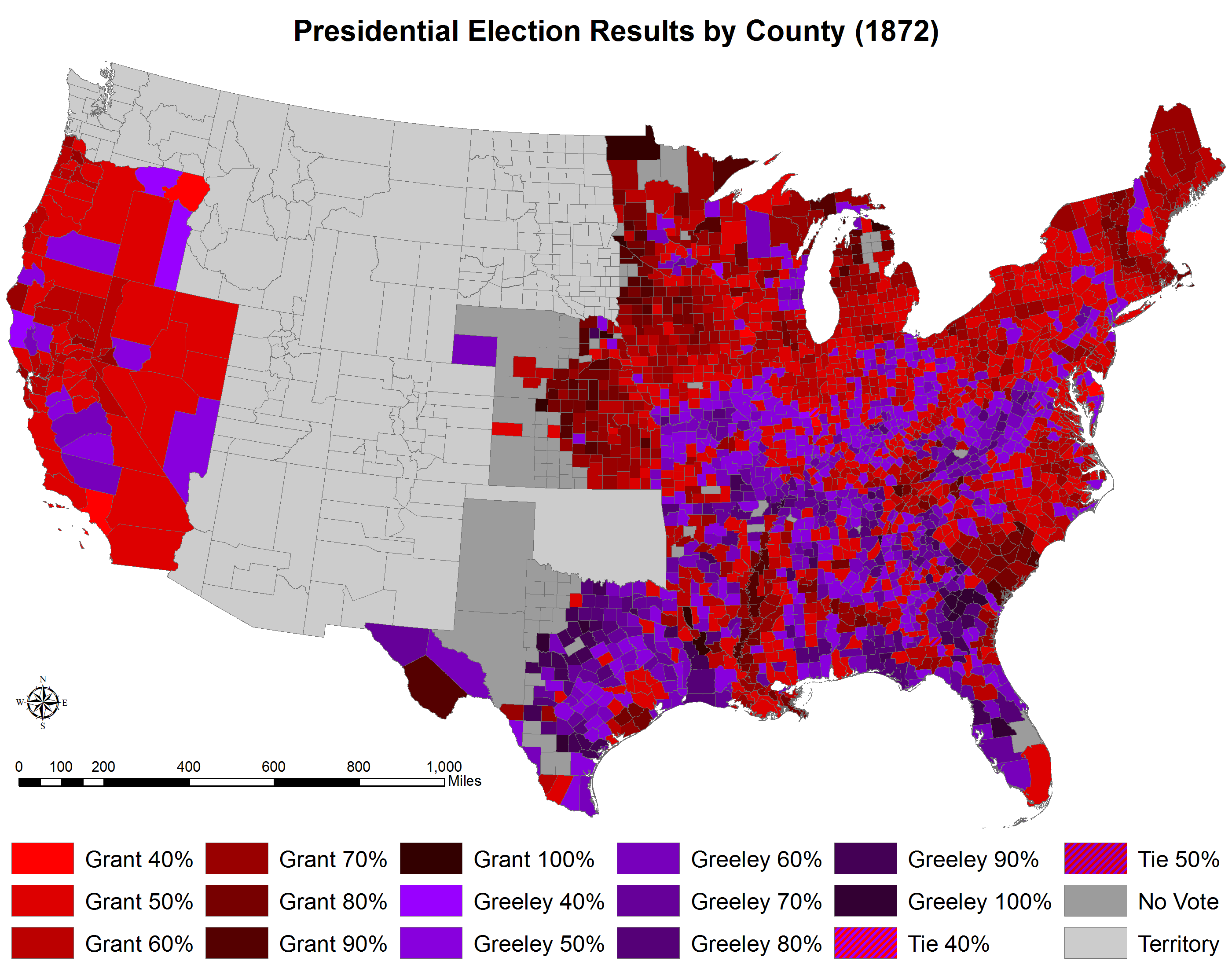 Presidential election results by county (1872).